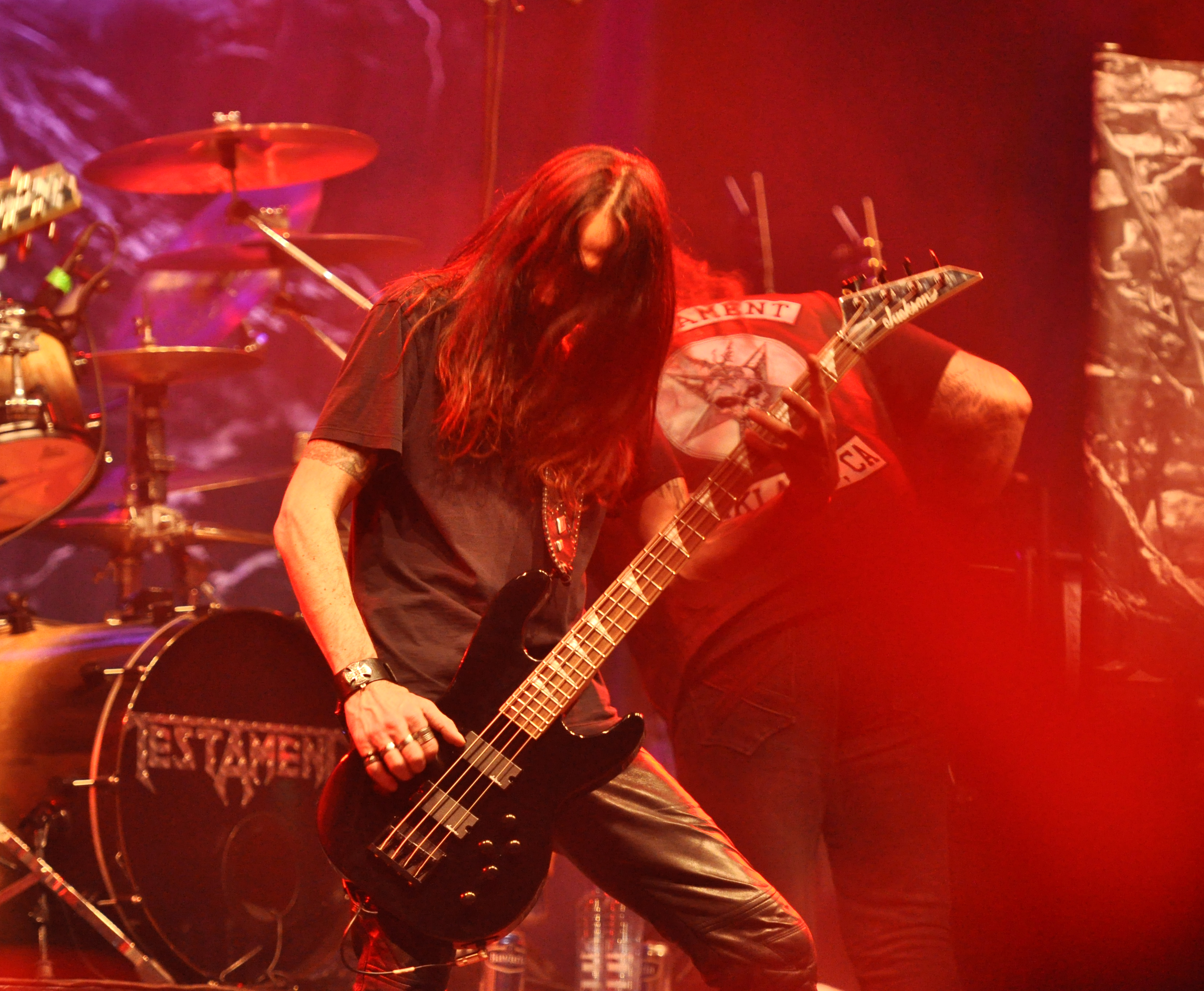 Greg Christian of Testament at Paspop 2013, Schijndel, NL